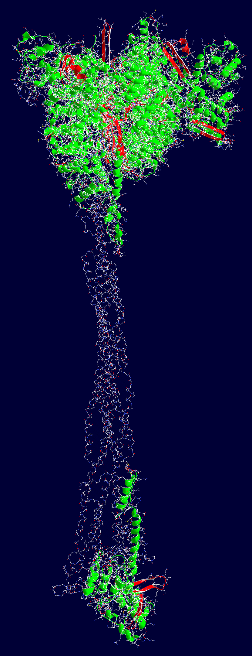 Possible structure for tl::en:Methionylalanylthreonyl...leucine.